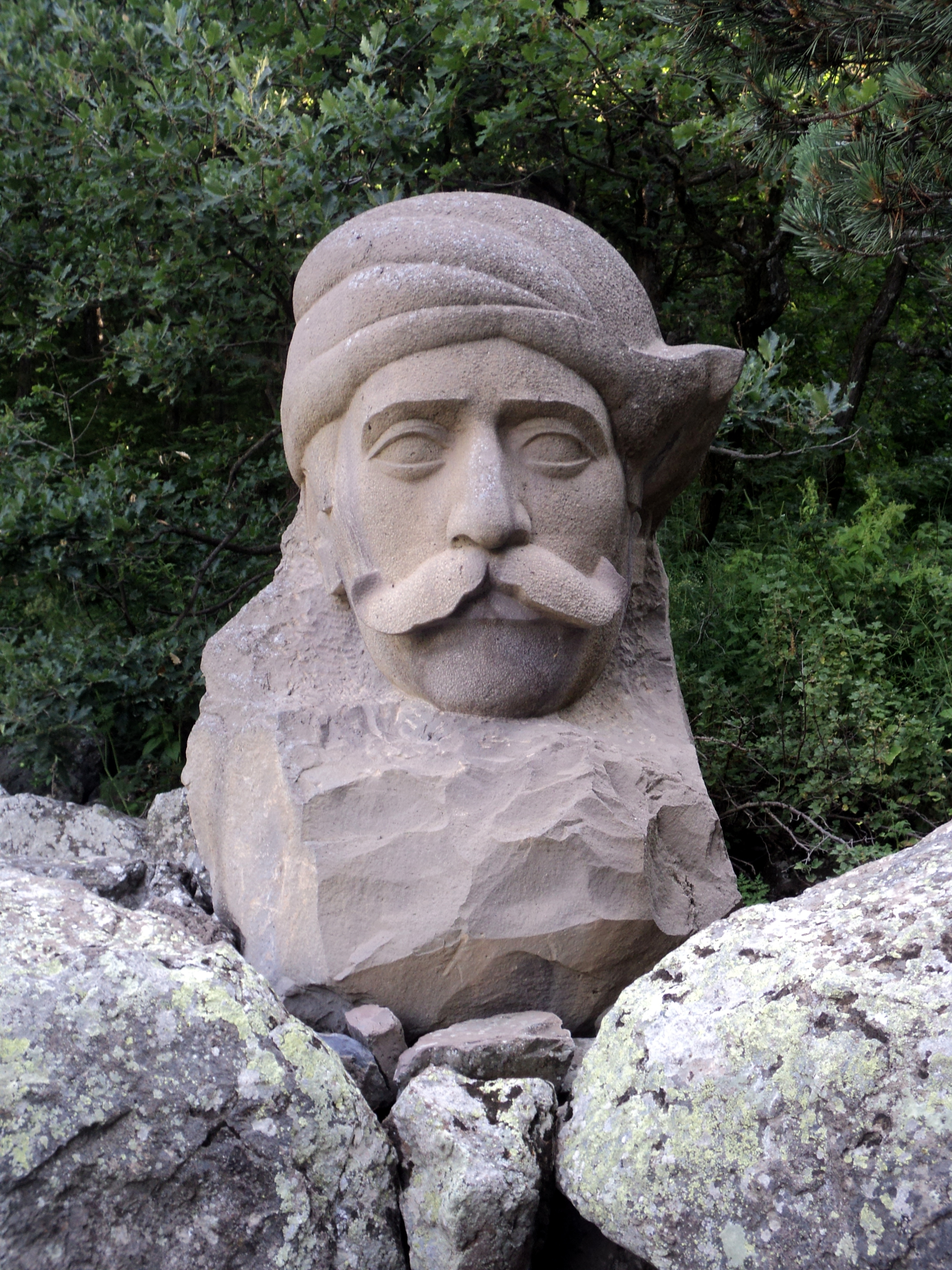 Աղբյուր Սերոբ (Սերոբ Փաշա Վարդանյան) — ազգային-ազատագրական շարժման գործիչ, ֆիդայի: Քանդակը Ջերմուկ քաղաքում է, հեղինակ` Հովհաննես Մուրադյան